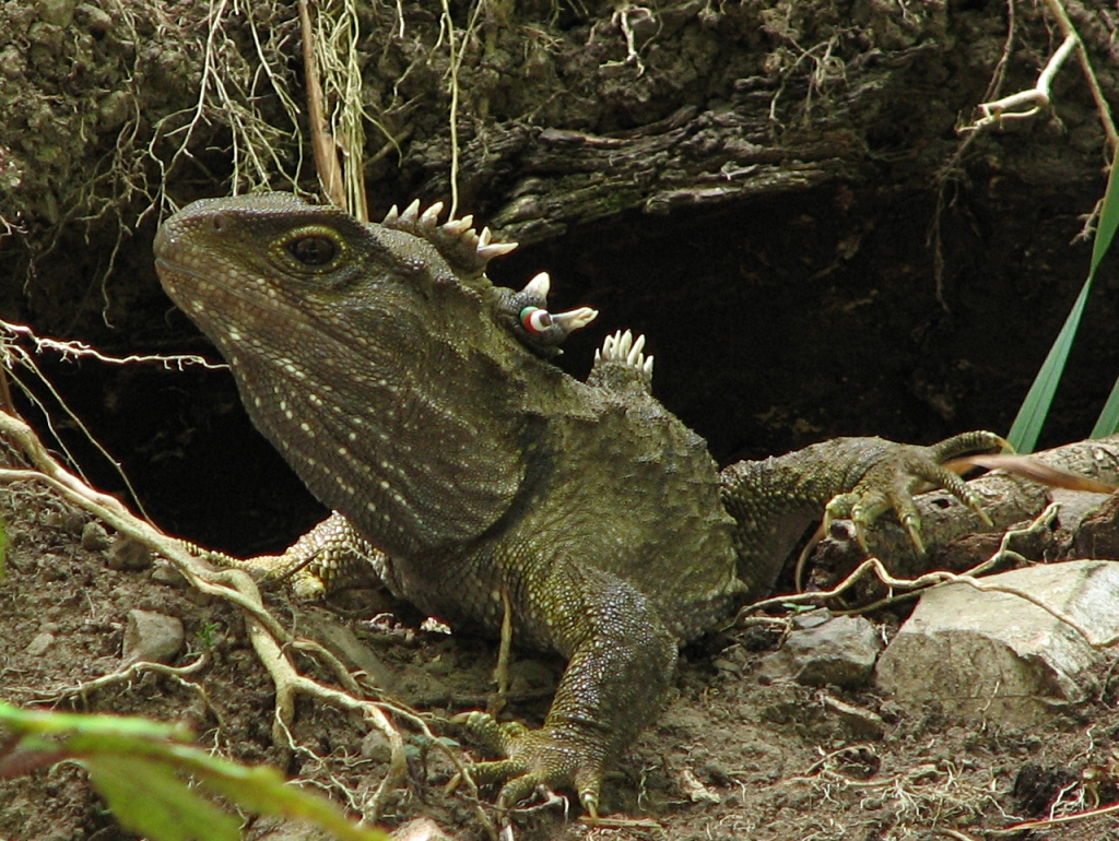 Sphenodon punctatus. Tuatara in front of its burrow at the Karori Wildlife Sanctuary. The Tuatara isn't a lizard - according the the Wikipedia entry about Tuatara: "Its origin probably lies close to the split between the Lepidosauromorpha and the Archosauromorpha, making it the closest living thing we can find to a "proto-reptile".